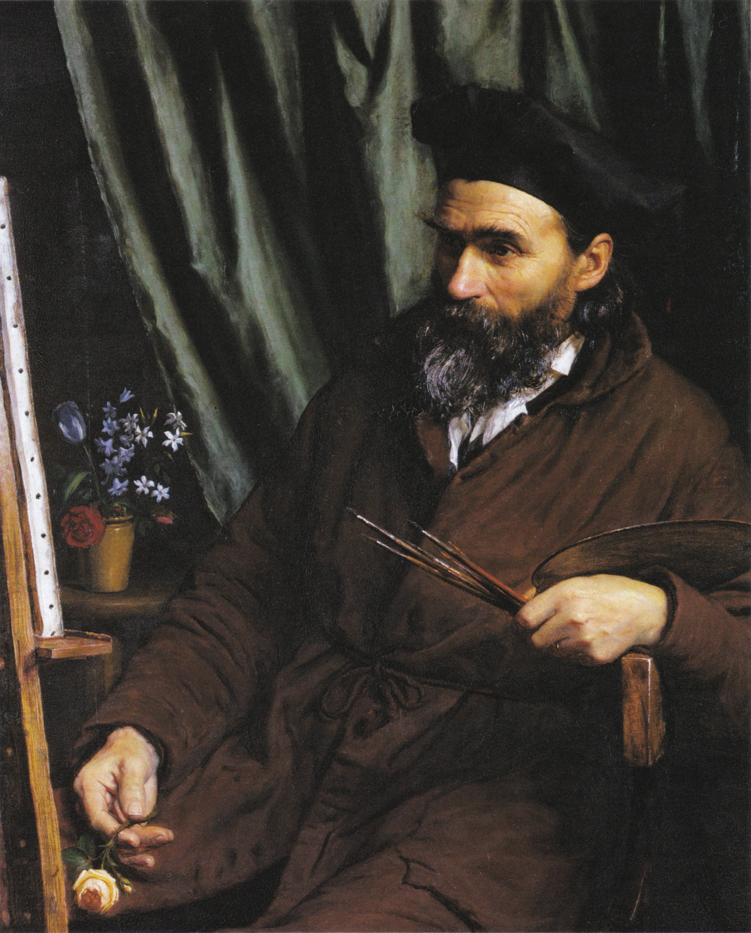 When he was just 21, Krøyer was asked by the exhibition committee of the Charlottenborg Exhibition to make a portrait of Otto Diderich Ottesen, who was a very prominent flower painter at the time. Source: Peter Michael Hornung, Peder Severin Krøyer, page 35-36.